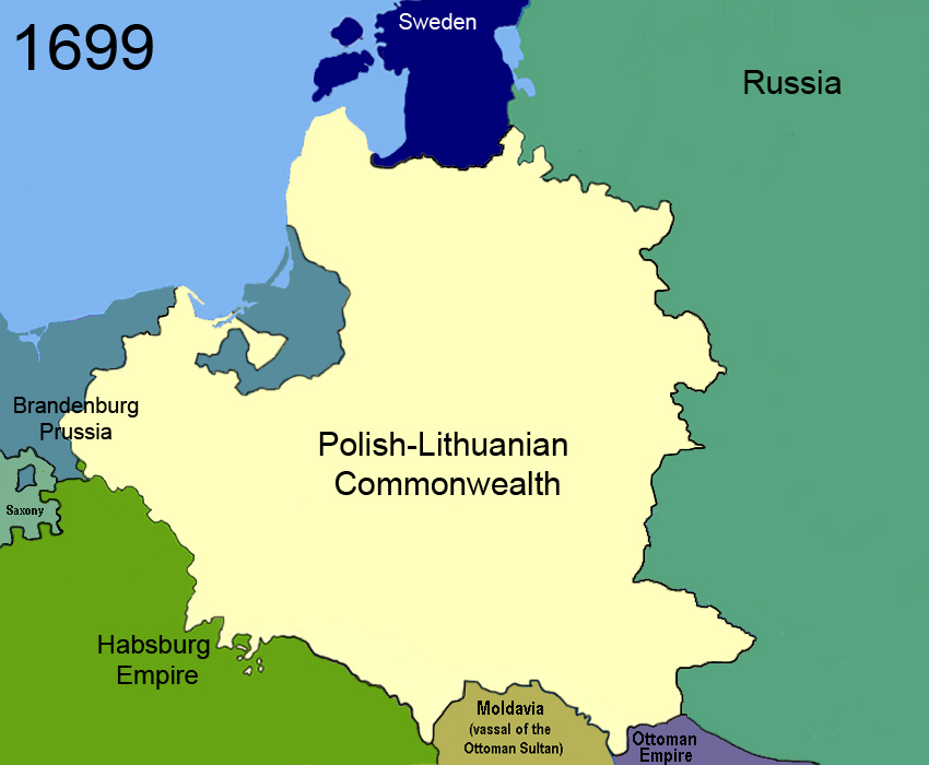 Poland 1699